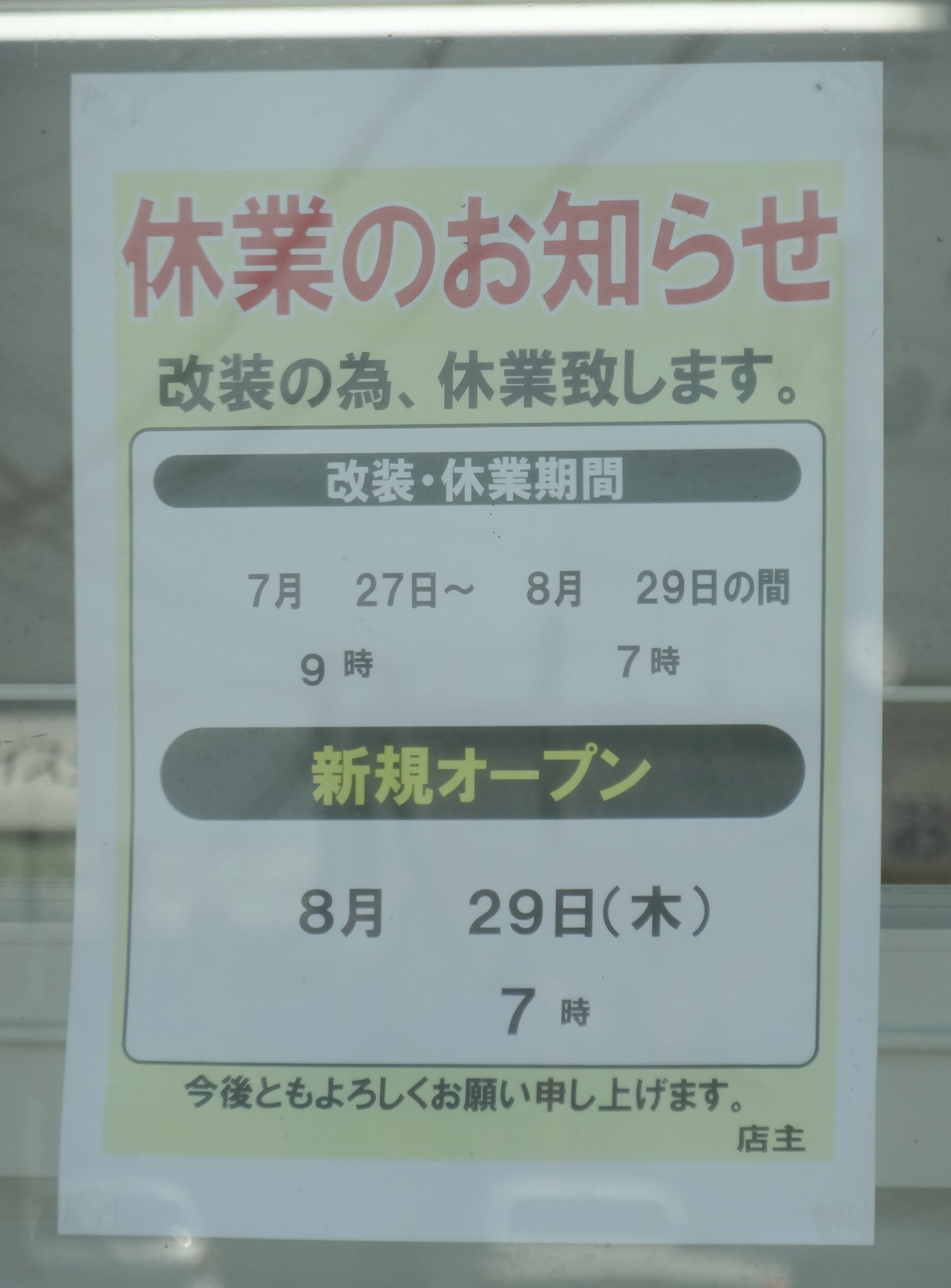 Convenience Store "Sunkus" changes to "Lawson" in Southern Kyushu, Japan